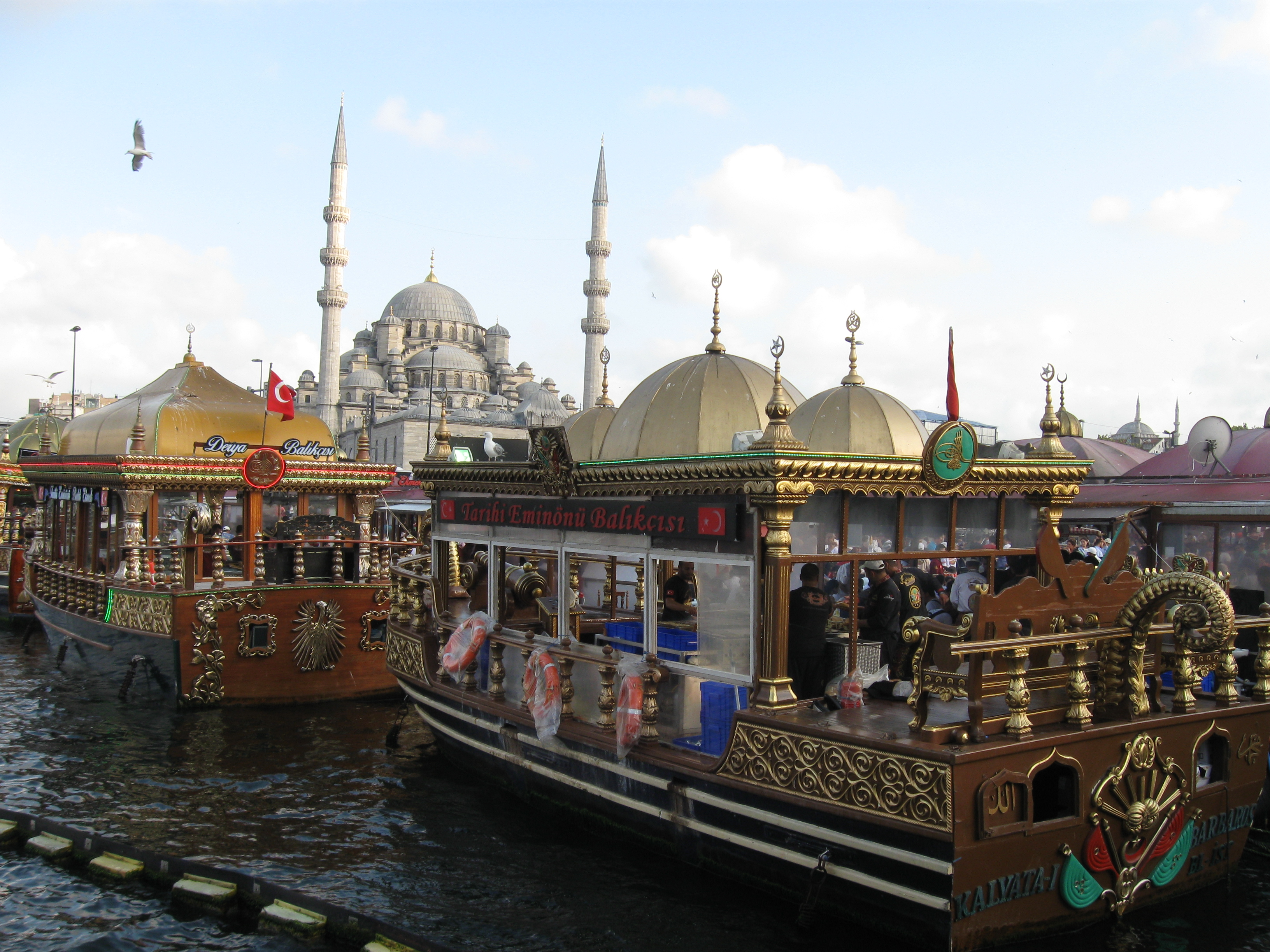 Eminönü is a former district of Istanbul in Turkey, now a neighbourhood of Fatih district. This was the main port of the walled city of Constantine, the focus of a history of incredible richness. Eminönü covers roughly the area on which the ancient Byzantium was built. The Galata Bridge crosses the Golden Horn into Eminönü and the mouth of the Bosphorus opens into the Marmara Sea.